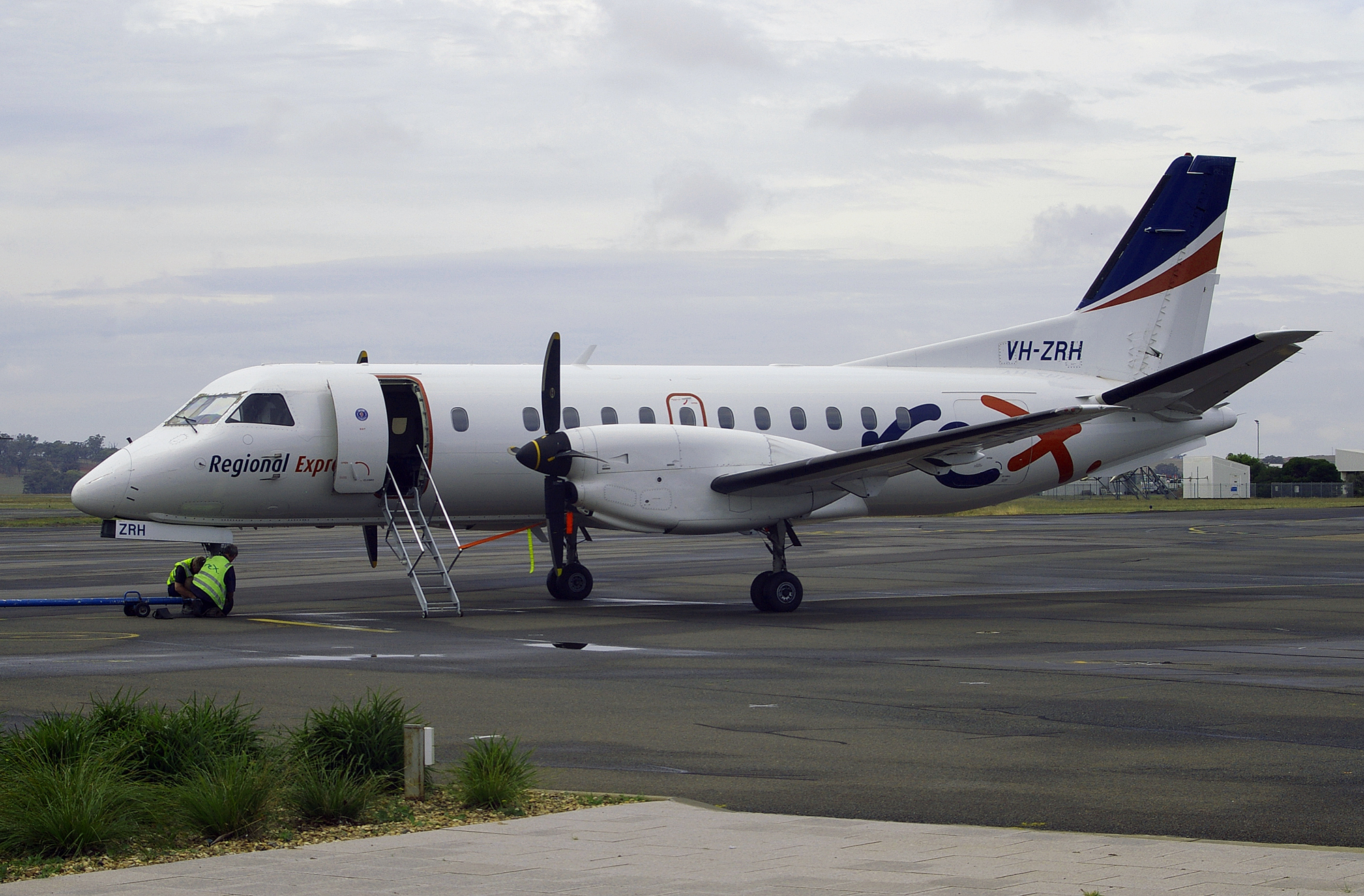 Regional Express Airlines VH-ZRH Saab 340B at Wagga Wagga Airport.